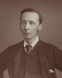 Sir Arthur Dyke Acland, statesman